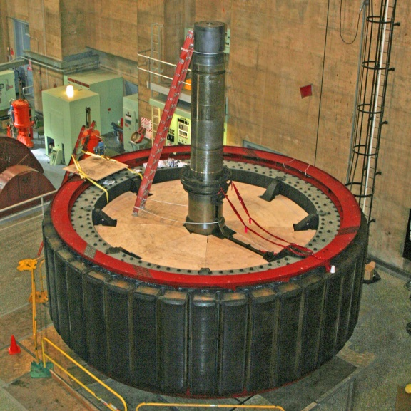 Rotor at Hoover Dam. Rotor was undergoing repairs.